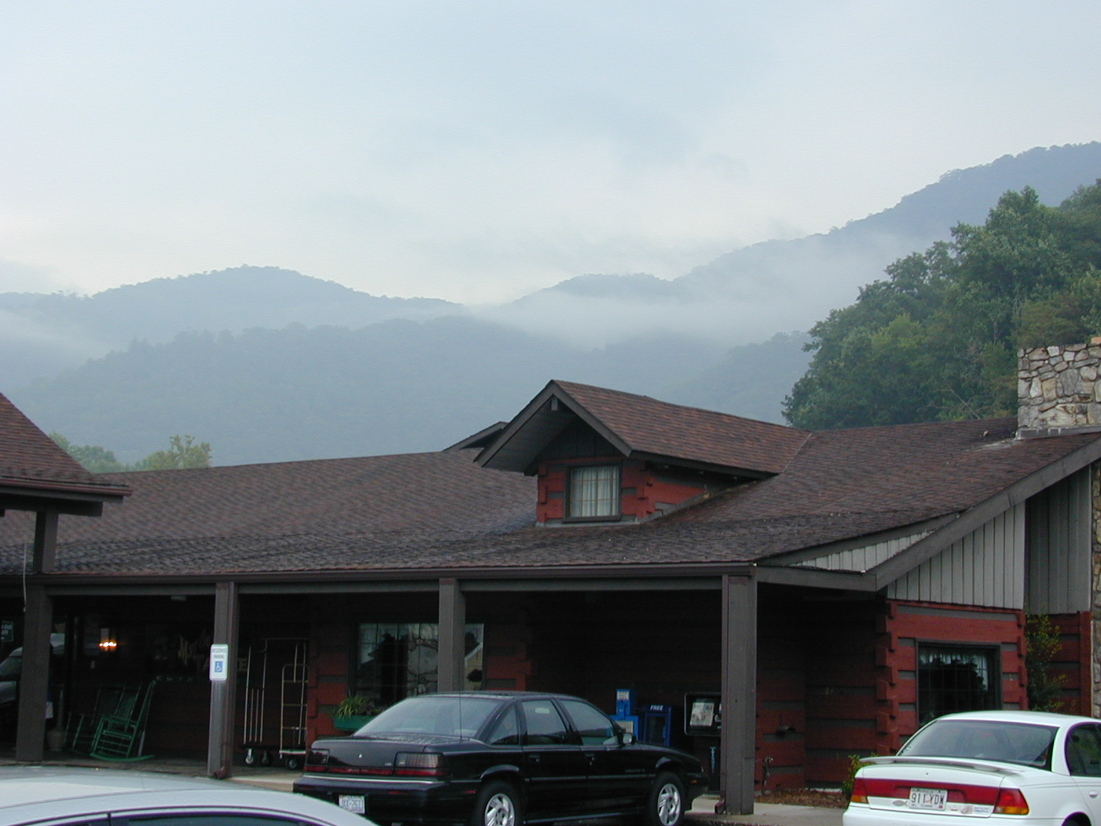 Great Smokies seen from Cherokee, NC Photo by Jan Kronsell, 2002